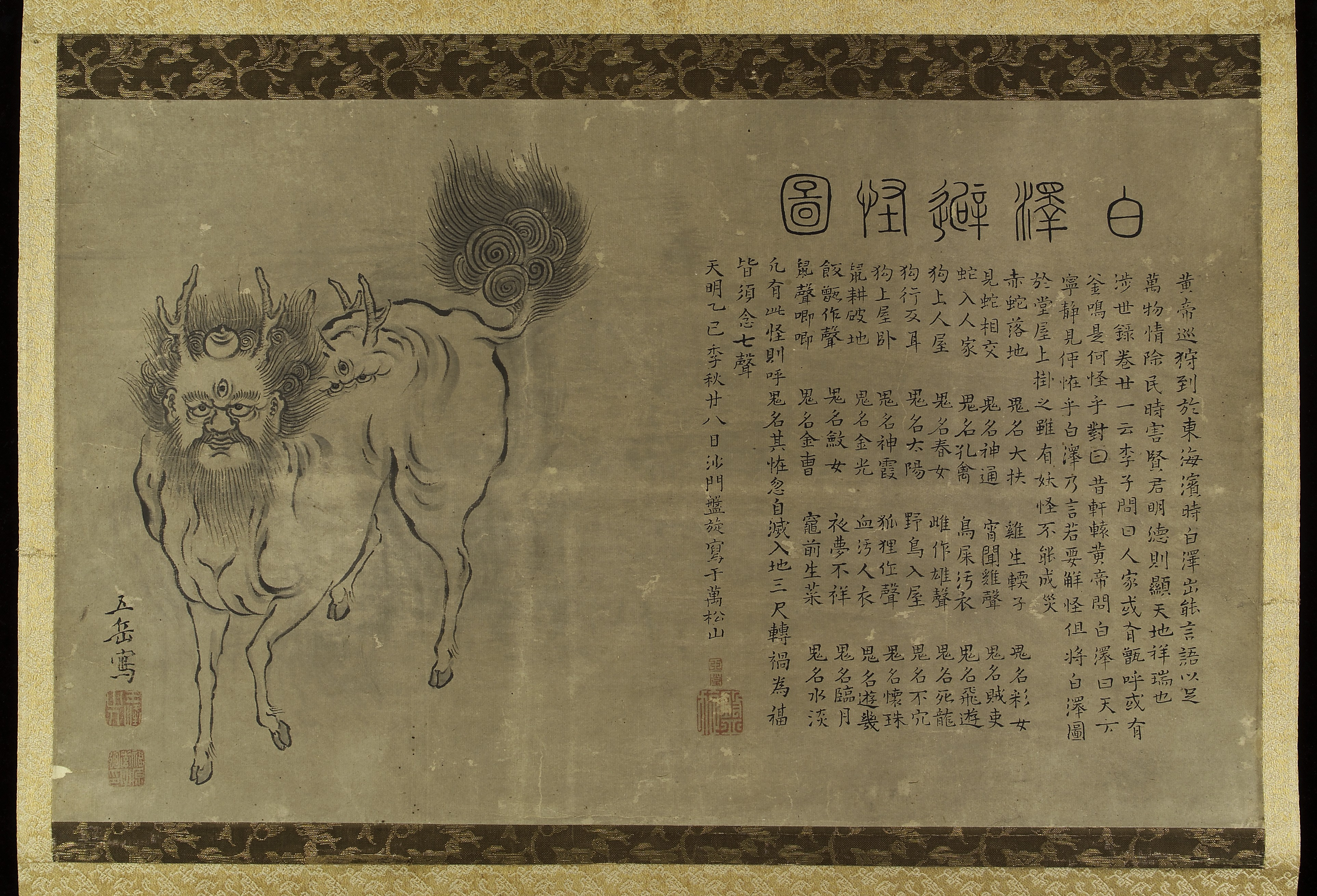 Painting of the deity Hakutaku. The Hakutaku image has three faces, each face with three eyes and a pair of horns. This "Hakutaku hi kai zu" is the oldest of five extant Japanese examples of a diagram combining the image of Hakutaku (literal translation, White Marsh) with an inscription that identifies Hakutaku as a deity who protects people from being harmed by spirit-world prodigies. The inscription includes a lengthy quotation from a lost twelfth century Chinese work, Sheshi lu (Record of Experiencing the World), that recommends hanging the picture of Hakutaku/Baize inside the house to prevent misfortune. Magical uses of the image of Hakutaku are well documented in eighteenth and nineteenth century Japan, including as a protective amulet when traveling and for illness. During the 1858 cholera epidemic in Edo (modern Tokyo) people were told to protect themselves by setting the image of Hakutaku on their headrest before retiring at night. Wellcome Images Keywords: Fukuhara Gogaku; Spirits; Charms; Asian Continental Ancestry Group; God; Japanese; Evil